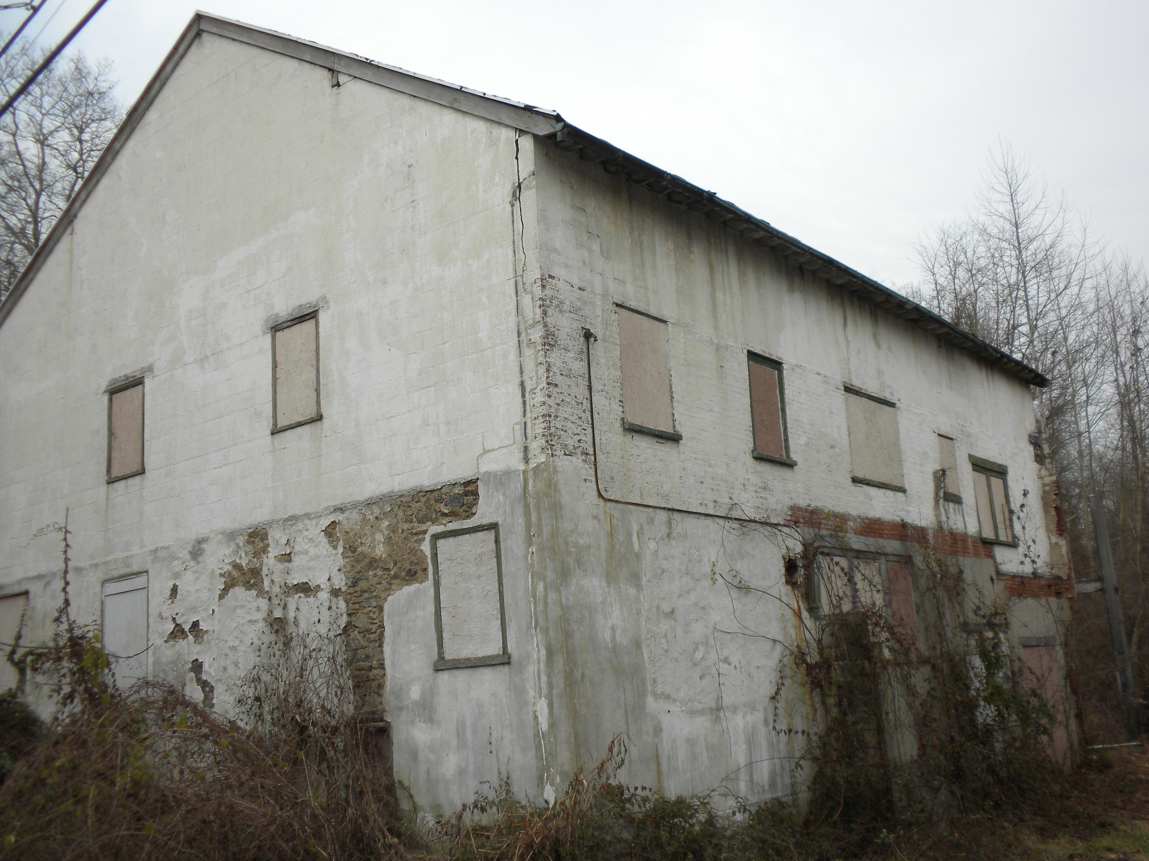 Barn or mill in Strodes Mill Historic District (NRHP) in Strode's Mill, Chester County, PA. Across the street from the main mill. This photo is my own work and I donate it to the public domain.